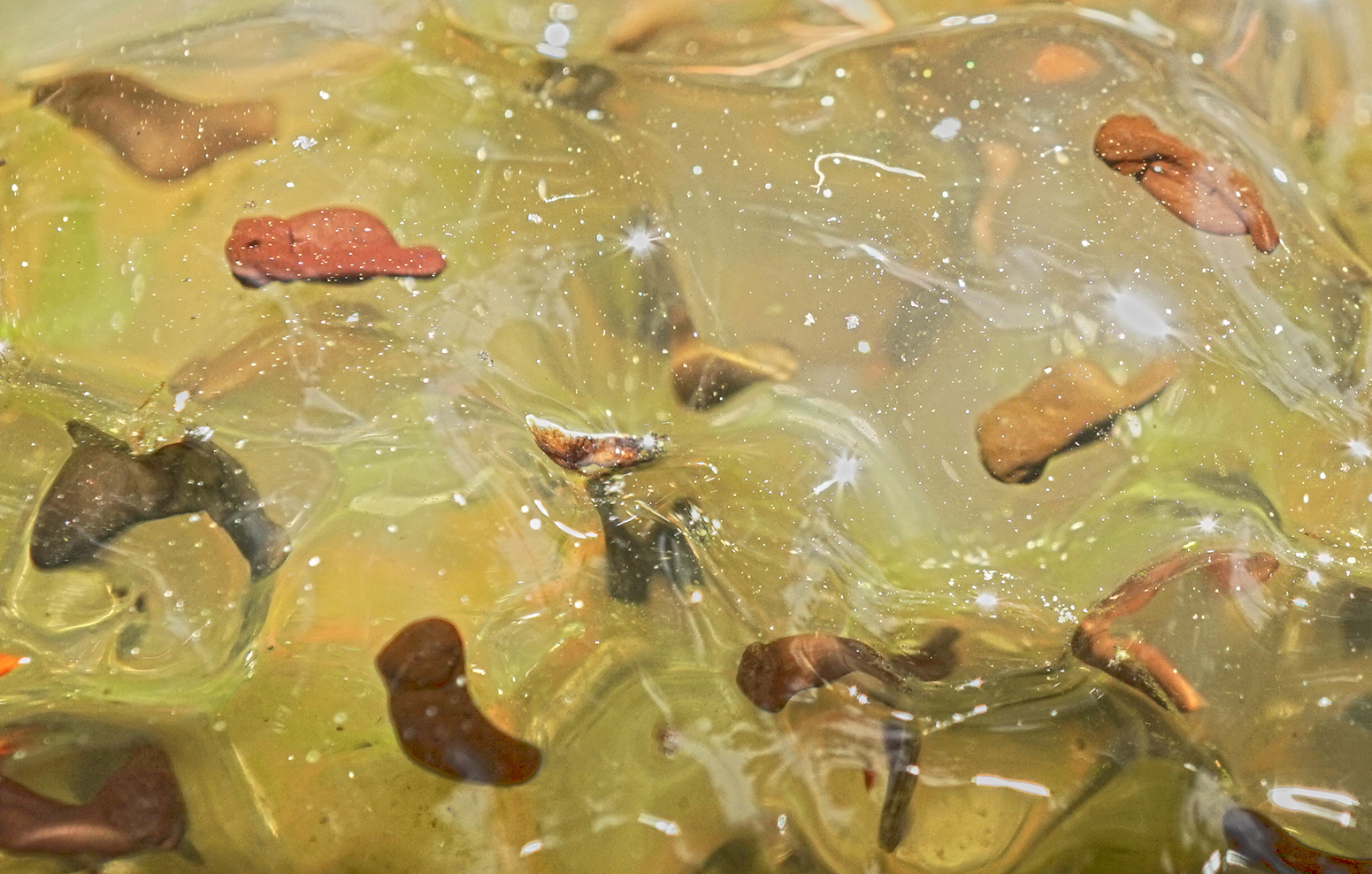 Frog spawn along the Multamäki nature trail, Laukaa.